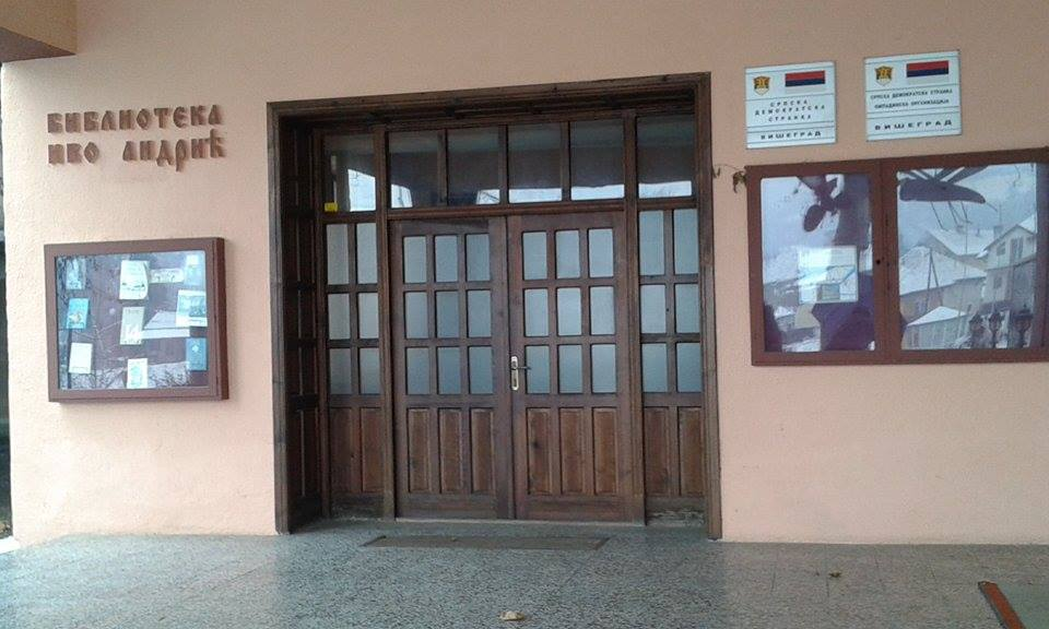 National library Ivo AndricСрпски (ћирилица): Zgrada biblioteke "Ivo Andrić"